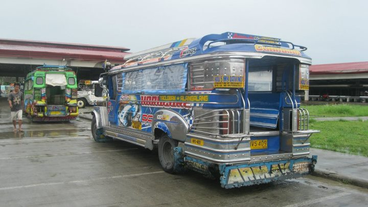 This is used for transporting goods and people in short and long distances at any point in Region VIII and so as in Tacloban City.